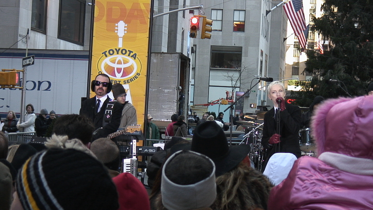 Eurythmics live on the Today Show, taken in Lower Manhattan, NY